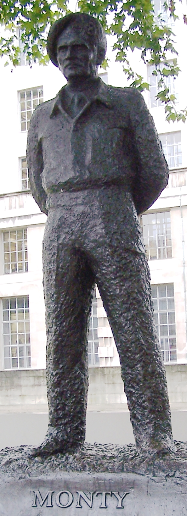 Bernard Montgomery, 1st Viscount Montgomery of Alamein situated in Whitehall, London. Sculptor was Oscar Nemon. Unveiled in 1980.